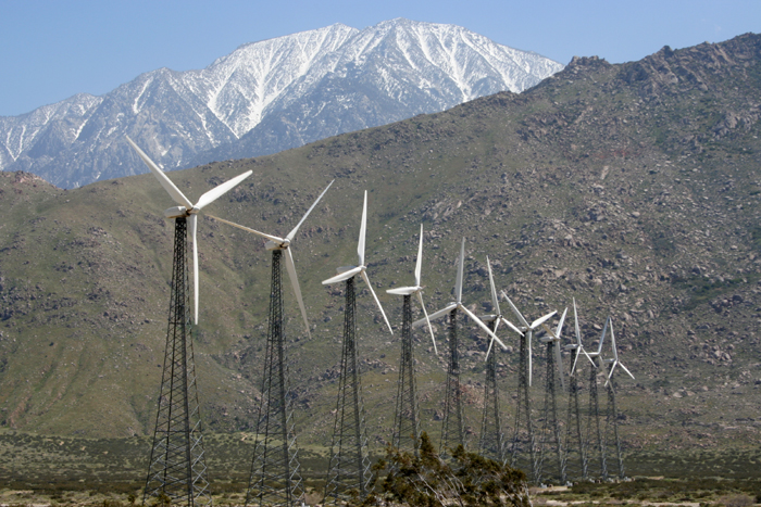 A small segment of the San Gorgonio Pass Wind Farm. Snow-covered Mt. San Jacinto is seen in the background. This digital photograph, facing due South, was taken near I-10 in White Water, California on 2006-04-22. The wind currents in the Pass are especially strong, which are desirable for the wind turbines, but can make photographing and driving through this area a bit tricky.